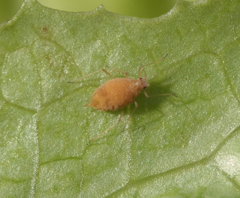 Acyrthosiphon lactucae Host: lettuce Lactuca sativa L. Common Name: aphid Photographer: Whitney Cranshaw, Colorado State University, United States Descriptor: Adult(s) Description: aphid killed by infection with Beauveria bassiana Image taken in: United States